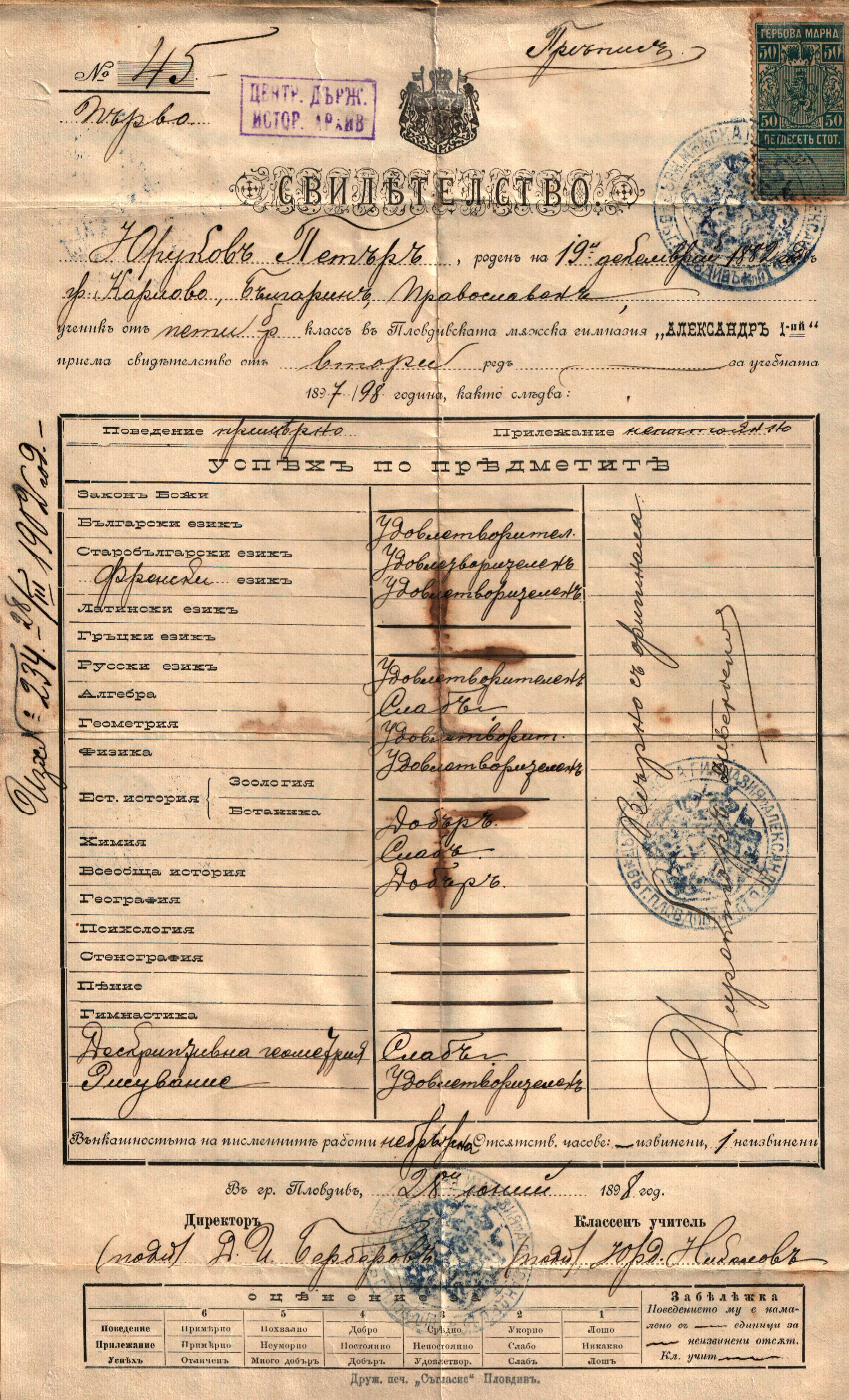 Petar Hristov Yurukov